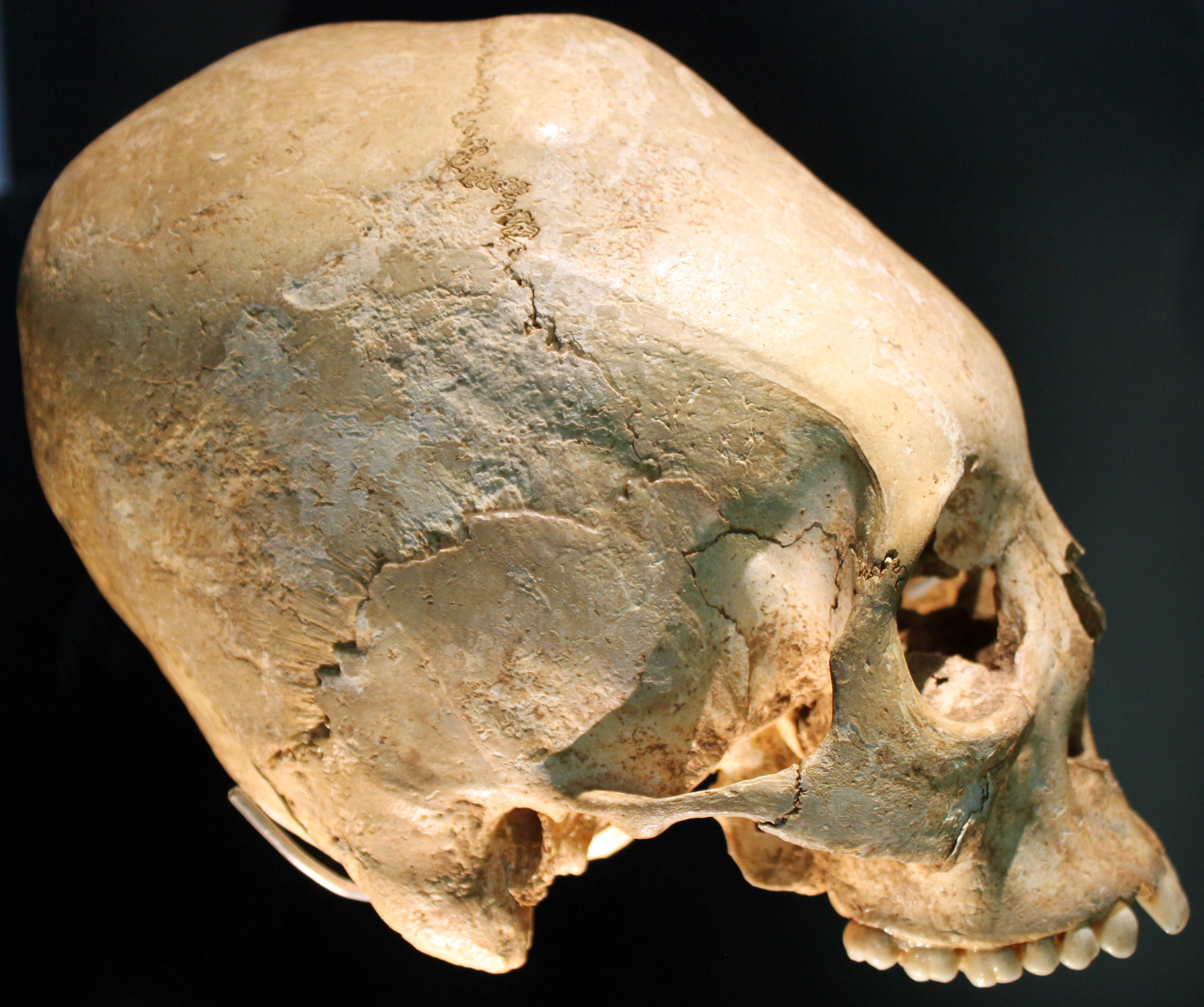 Turricephalus of a 30 to 40 year old alamannic woman of the early 6th centruy; shown at the Württembergisches Landesmuseum, Stuttgart, Germany